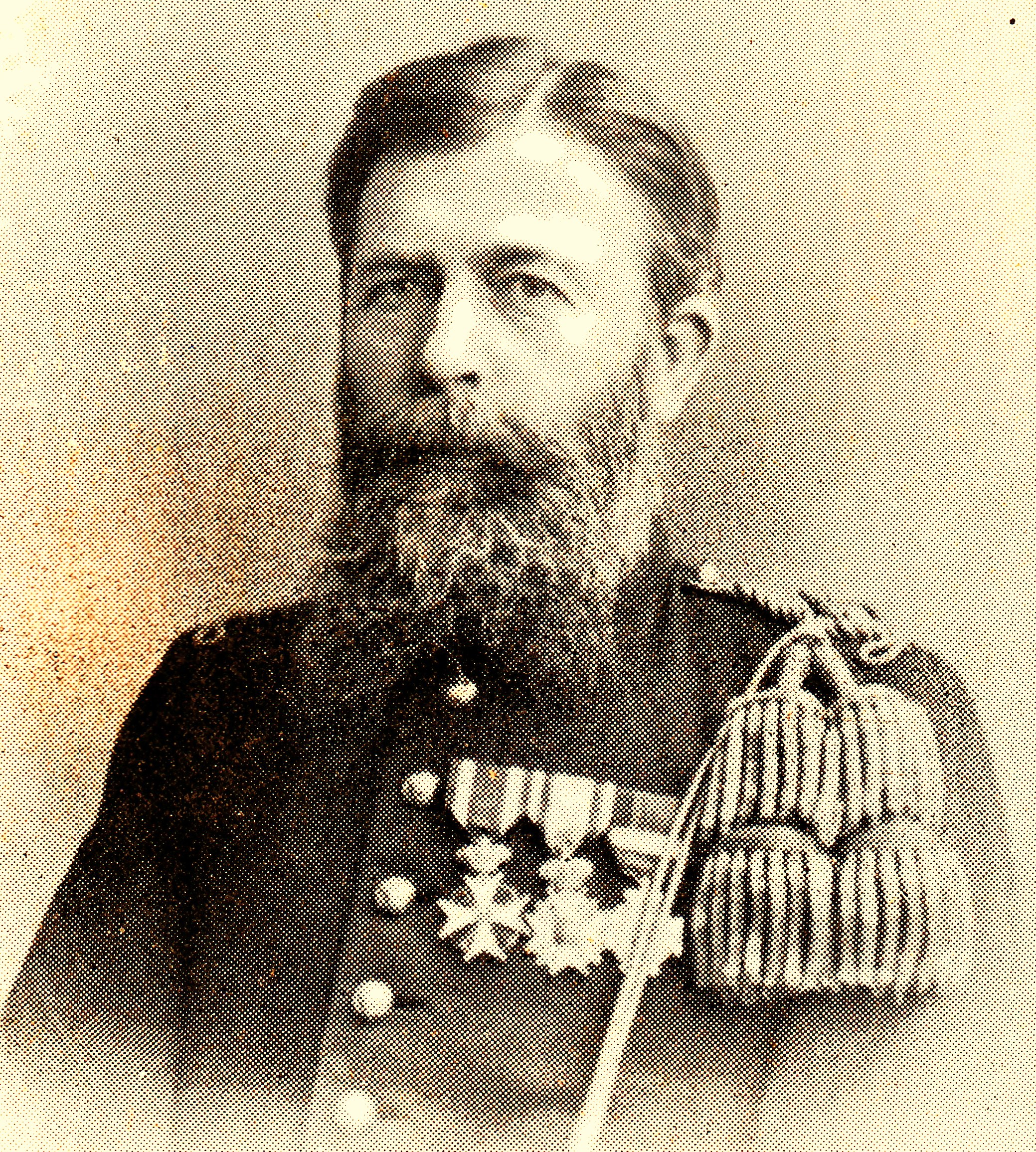 Kolonel Joris Bastiaan Verhey